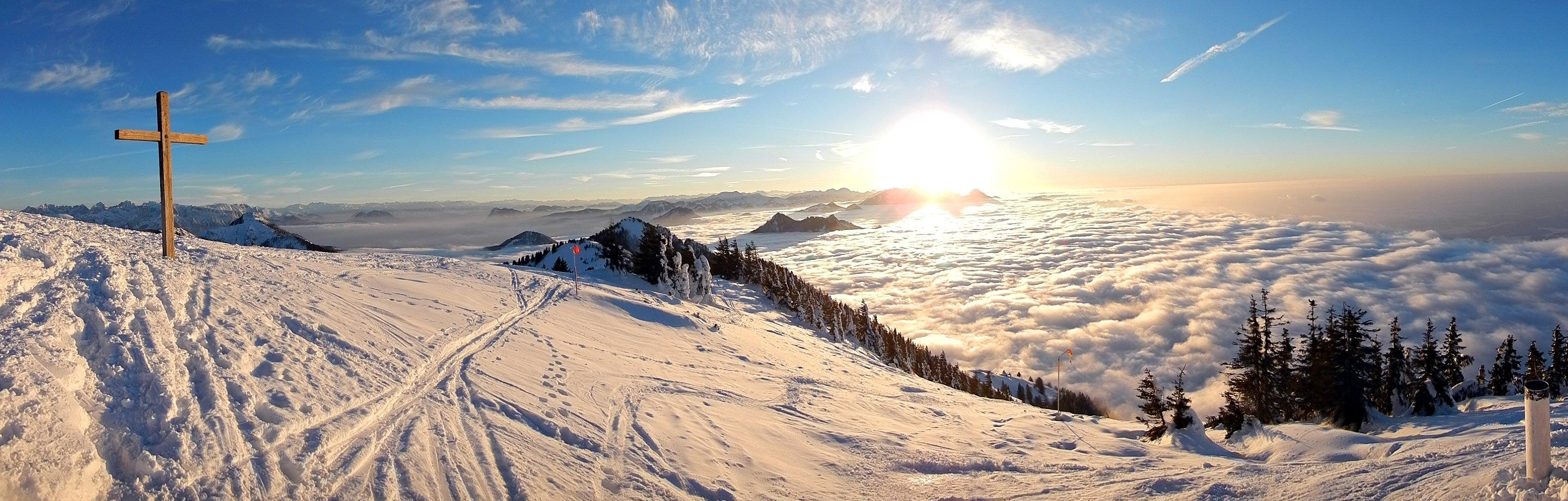 Panorama from the Hochries Rest Hut in the Chiemgau Alps, Germany